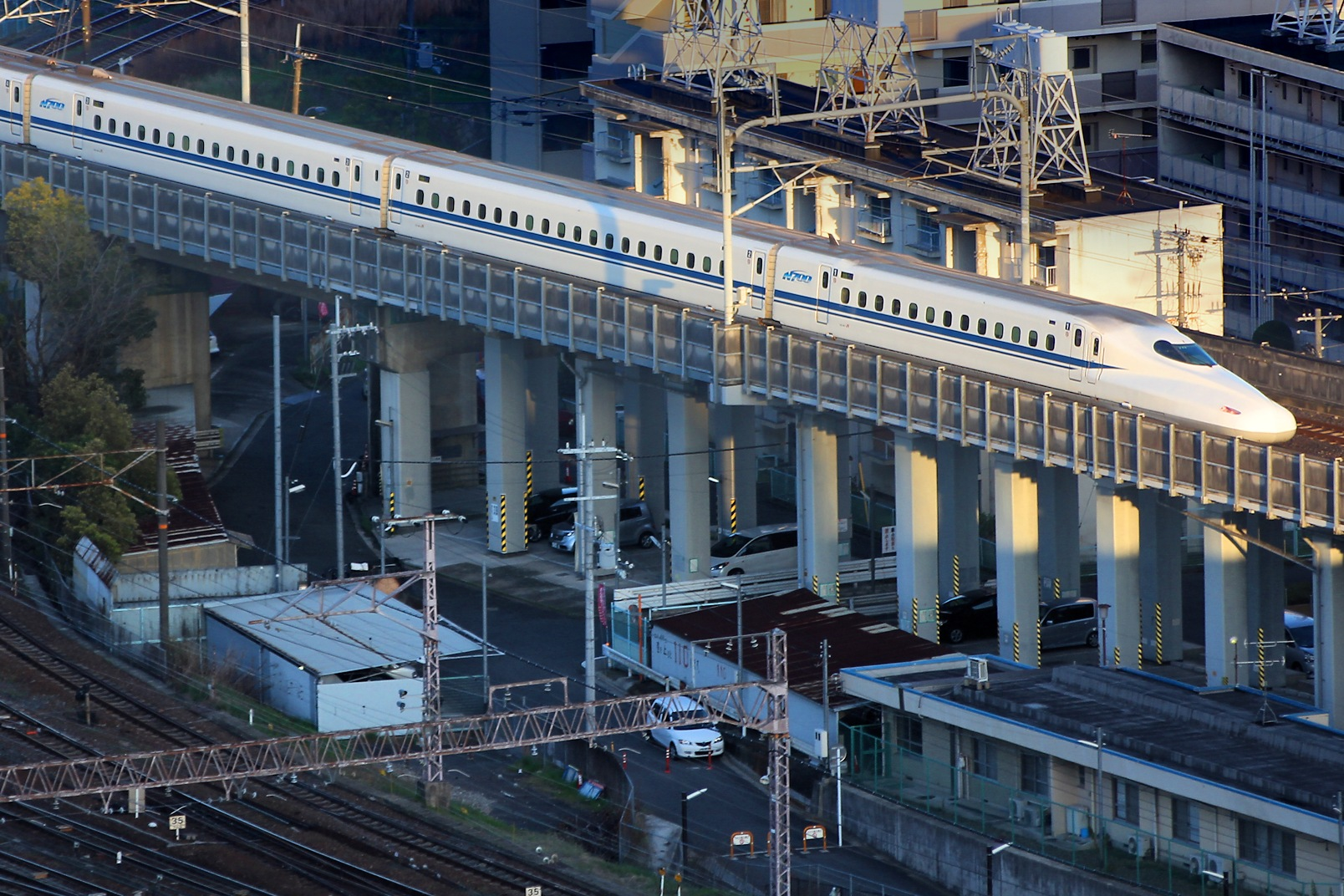 N700 Series Shinkansen high speed train arriving at Kyoto Station, Japan.